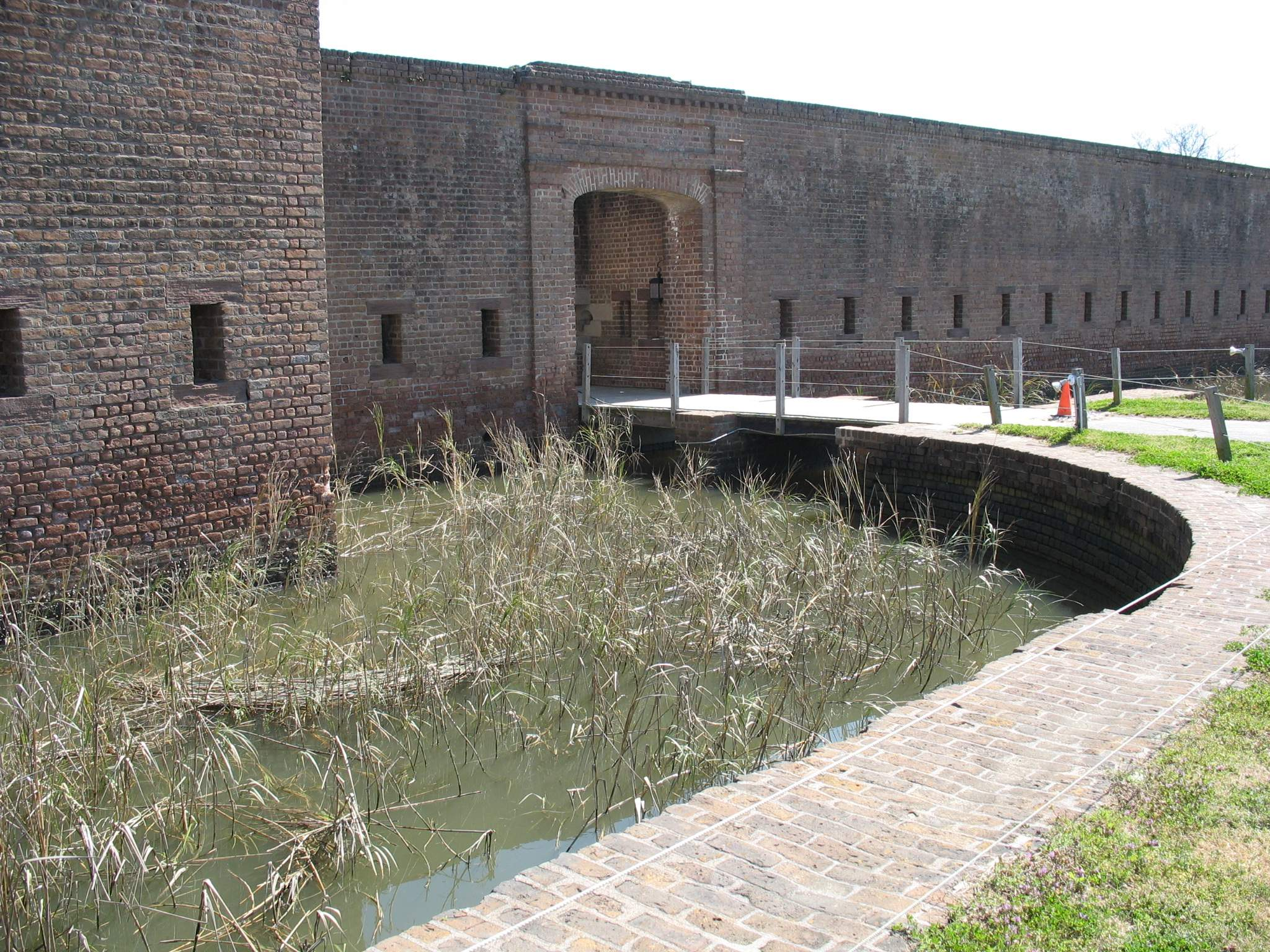 Fort Jackson, Moat. Brama